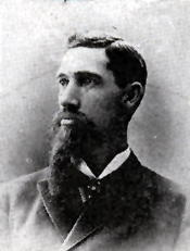 George F. Richardson, US Representative from Michigan